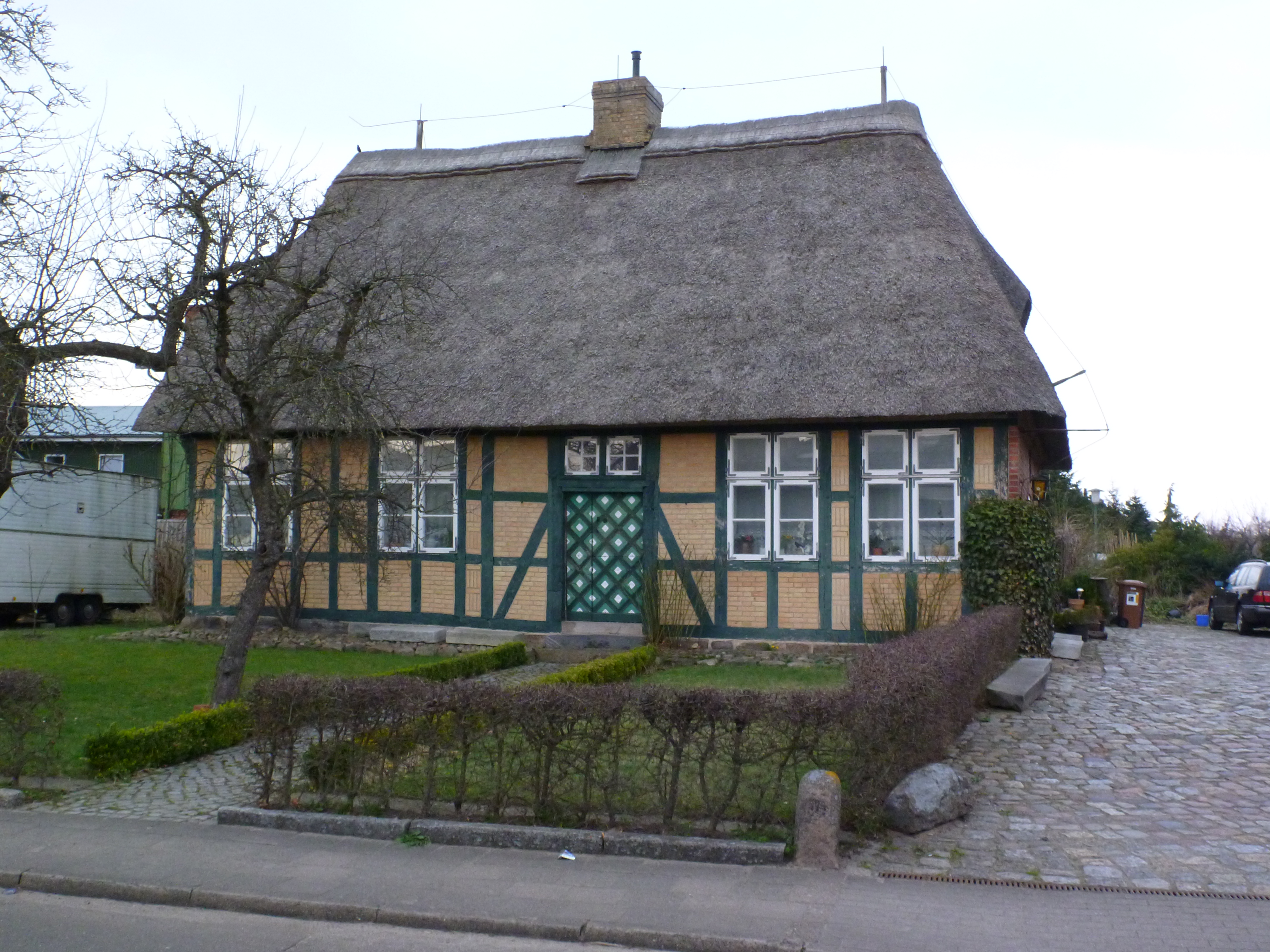 Small cottage, a preservation of sites of historic interest in Schwaber Straße in Jeverstedt